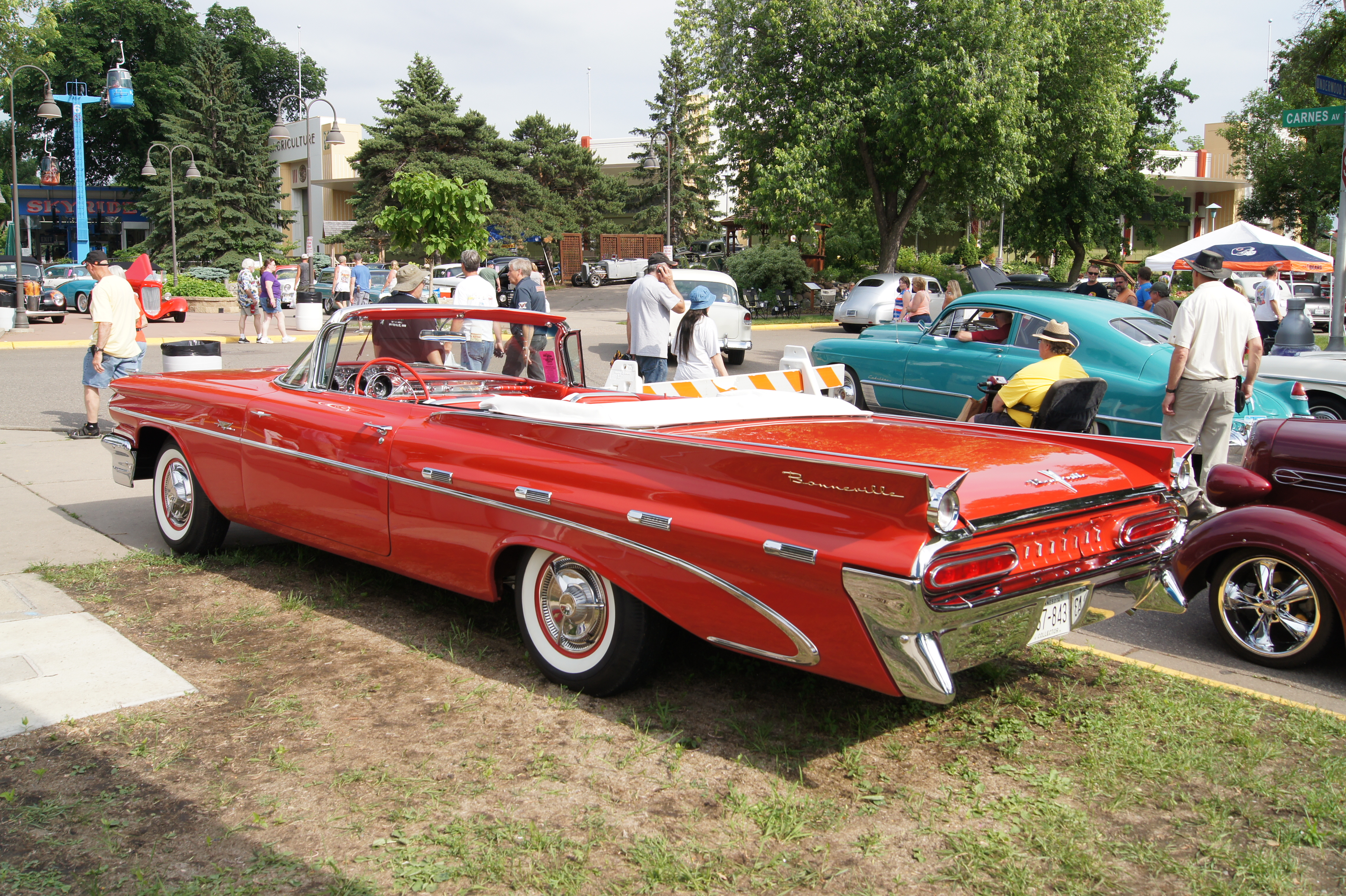 MSRA “BACK TO THE 50′s” 40th ANNIVERSARY June 21-23, 2013 State Fairgrounds St. Paul Minnesota More Car Pictures